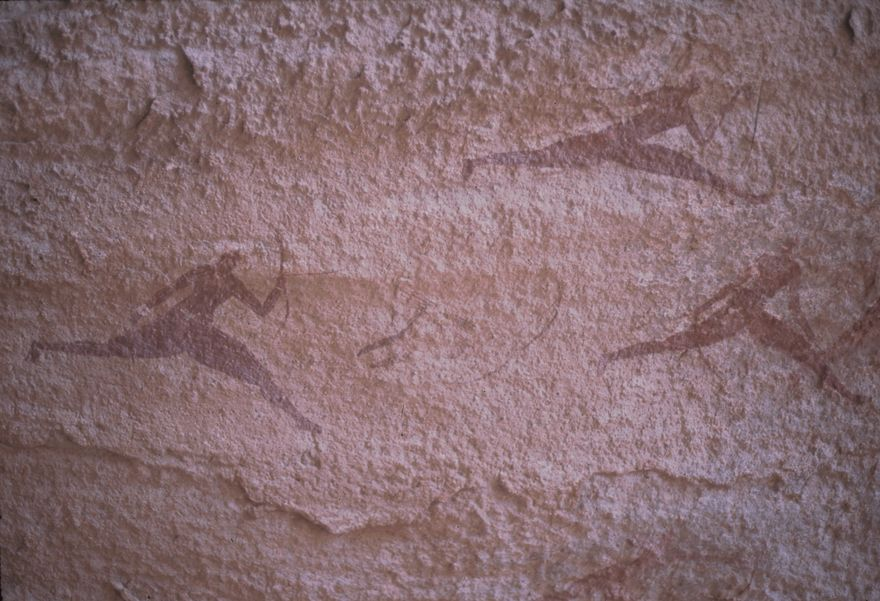 Archers who runs.